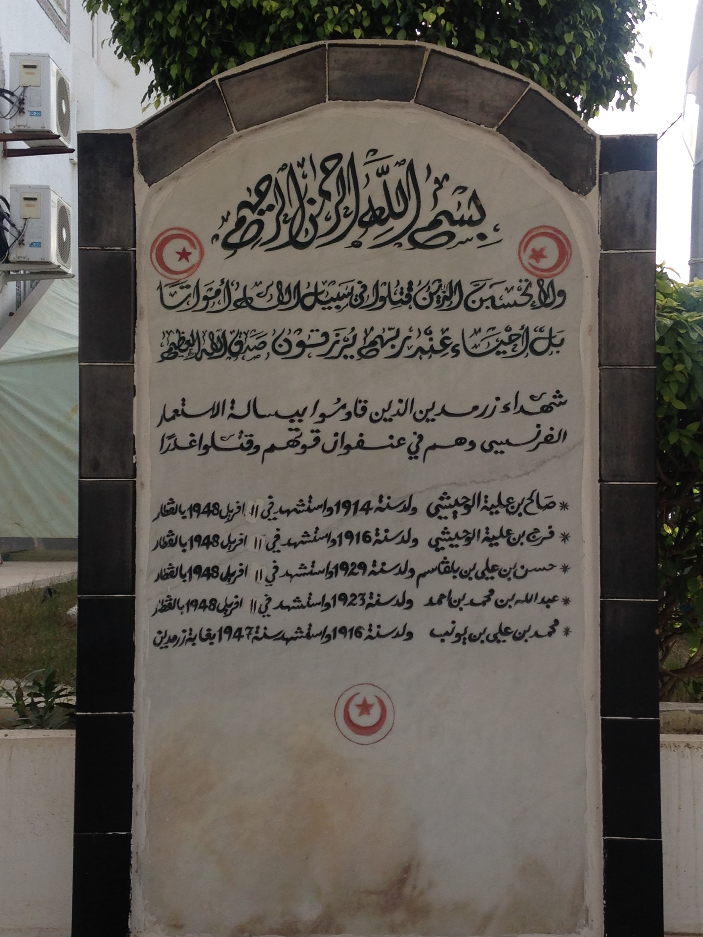 Zéramdine Martyrs Memorial